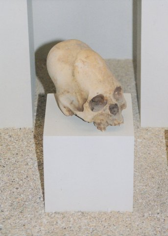 Long skull Inca period in Peru